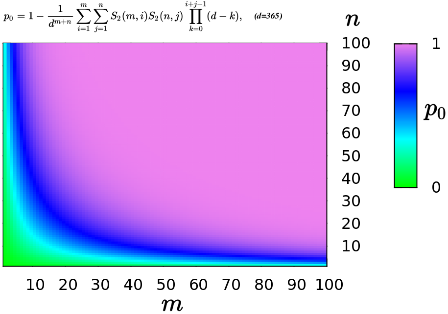 plot generated using the following maxima commands: array (check, 99, 99); for m:1 thru 100 do for n:1 thru 100 do check[m-1,n-1] : 0 $ array (result, 99, 99); for m:1 thru 100 do ( for n:1 thru 100 do ( if (check[m-1,n-1] = 0) then ( tmp : 1-1/365**(m+n)*sum(sum(stirling2(m,i)*stirling2(n,j)*product(365-k,k,0,i+j-1),j,1,n),i,1,m), result[m-1,n-1] : tmp, result[n-1,m-1] : tmp, check[m-1,n-1] : 1, check[n-1,m-1] : 1, if (mod(n, 10) = 0 or mod(m, 10) = 0) then display(n,m) )))$ plot3d (result[floor(x)-1,floor(y)-1], [x,1,100],[y,1,100], [zlabel,""], [mesh_lines_color,false], [elevation,0], [azimuth,0], color_bar, [grid,99,99], [ztics,false], [color_bar_tics,1])$